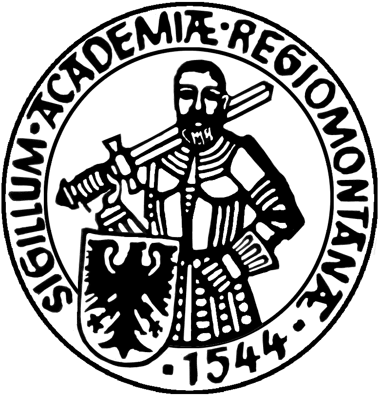 Seal of University of Königsberg